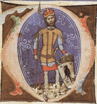 Chronicon Pictum Hungarian captain Előd with a spear and the Turul on his shield.